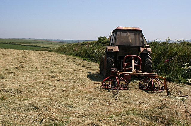 Hay Turning. I have to admit that the tractor was not in operation at the time I took this shot, but that is what the implement on the back of the tractor does, it turns over the lines of hay lying cut in the field to help the drying process. Once the hay is dry it is gathered into bales and stored. You hope for dry sunny weather while the hay is drying and this June they seem to have it.